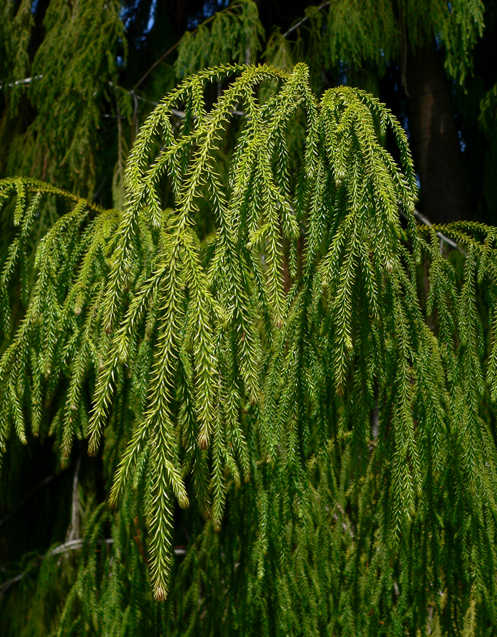 Dacrydium cupressinum at the San Francisco Botanical Garden